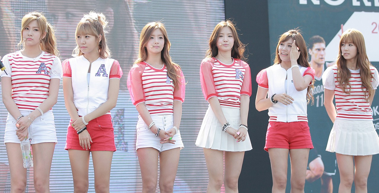 A Pink at NBA 3X Korea, August 2013. Left to right: Hayoung, Namjoo, Bomi, Naeun, Eunji and Chorong.